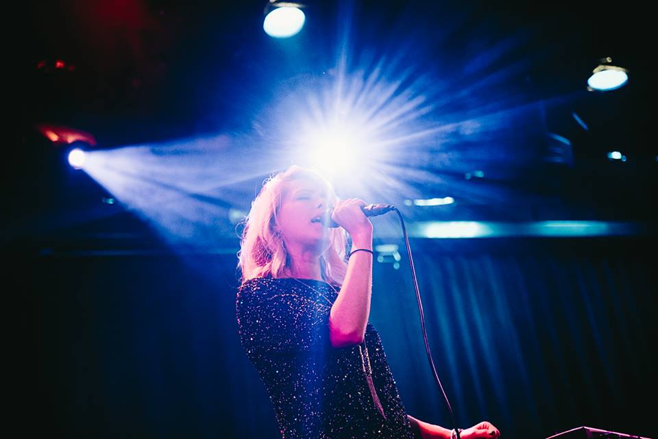 Beca Live at (le) poisson rouge, 2015. Photo by Ryan Muir.